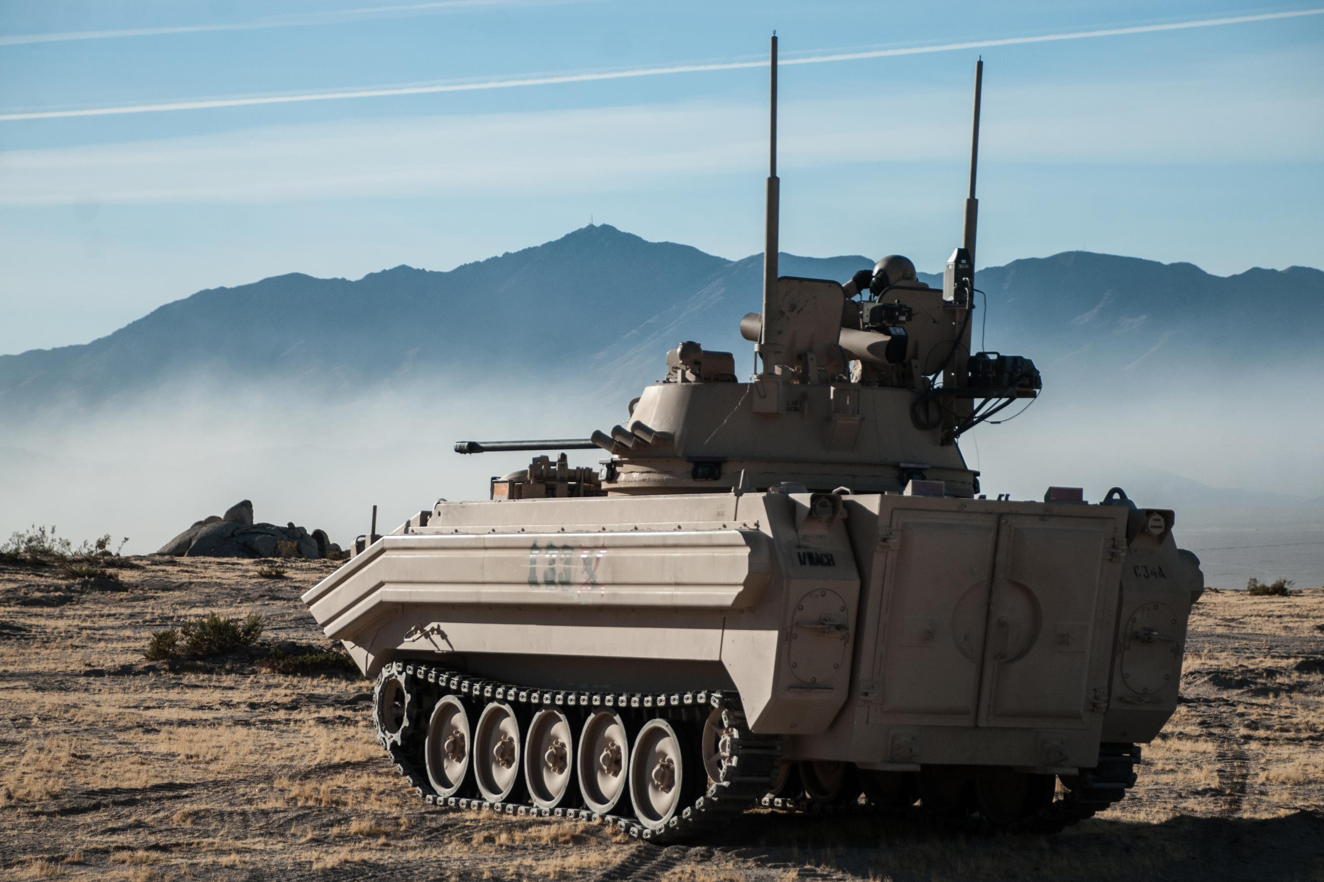 A soldier in an opposing-forces surrogate vehicle surveys the battlefield during a rotation at the National Training Center at Fort Irwin, Calif., Oct. 7, 2016. The soldier is assigned to 1st Squadron, 11th Armored Cavalry Regiment. The rotation focused on the brigade's ability to conduct a deliberate defense of an area during conventional and hybrid threats. Army photo by Sgt. David Edge